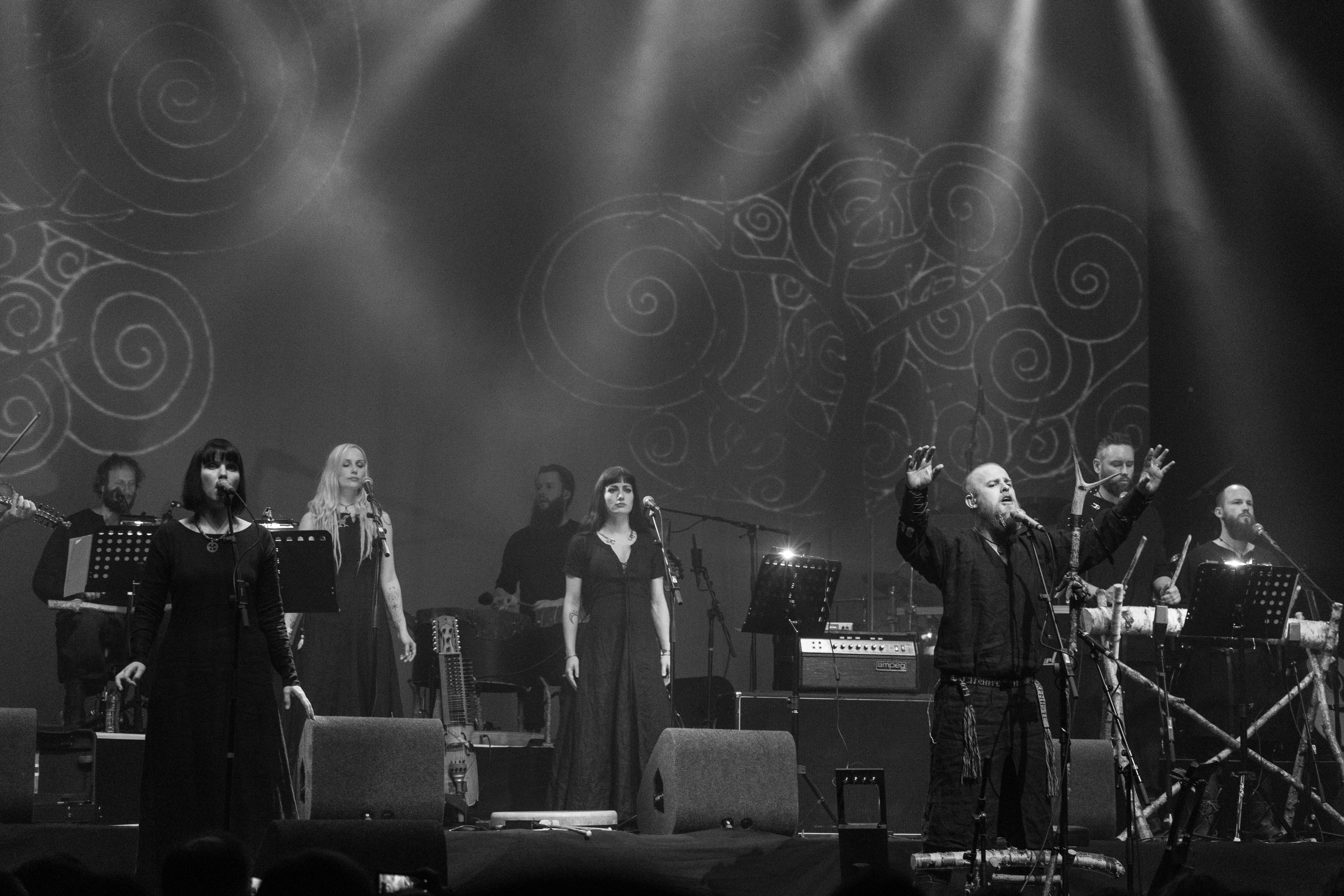 Wardruna performing at Roadburn Festival, april 2015